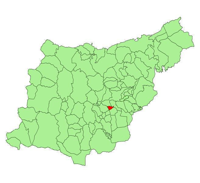 Ikaztegieta municipality in the province of Guipuzcoa